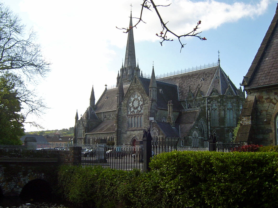 Town of Clonakilty in Ireland. Church.